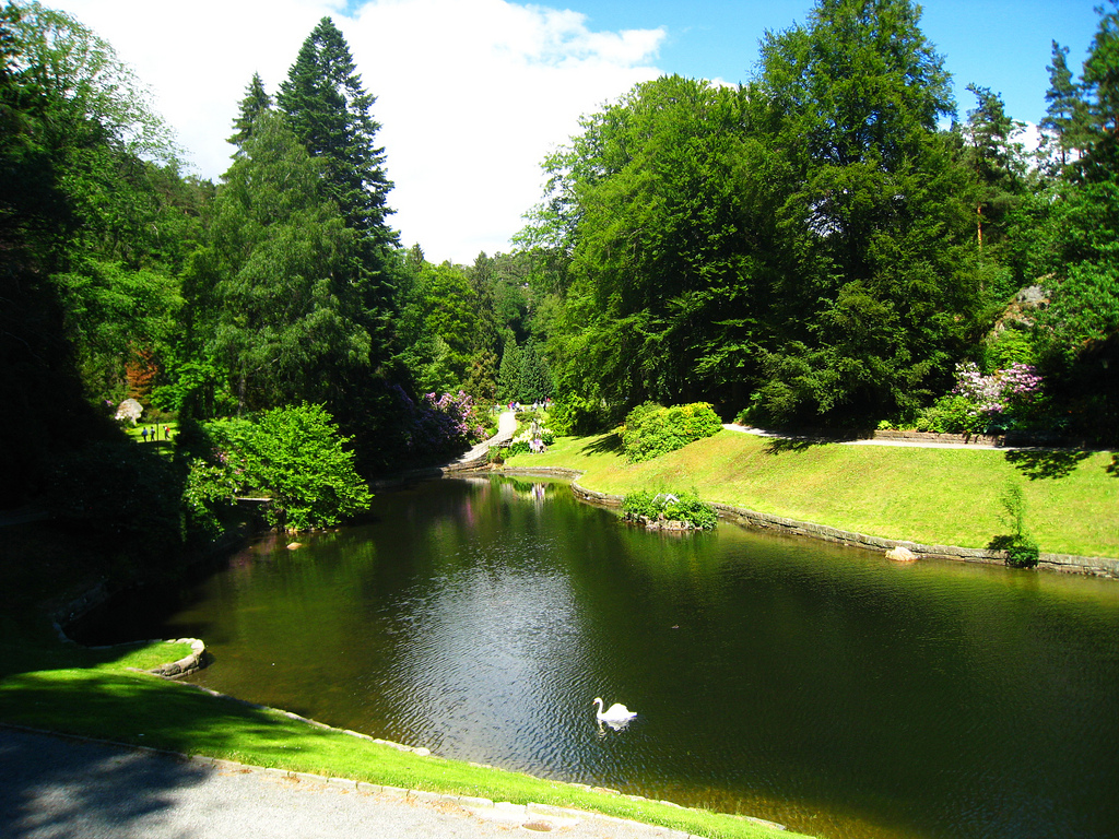 Ravnedalen in summer.